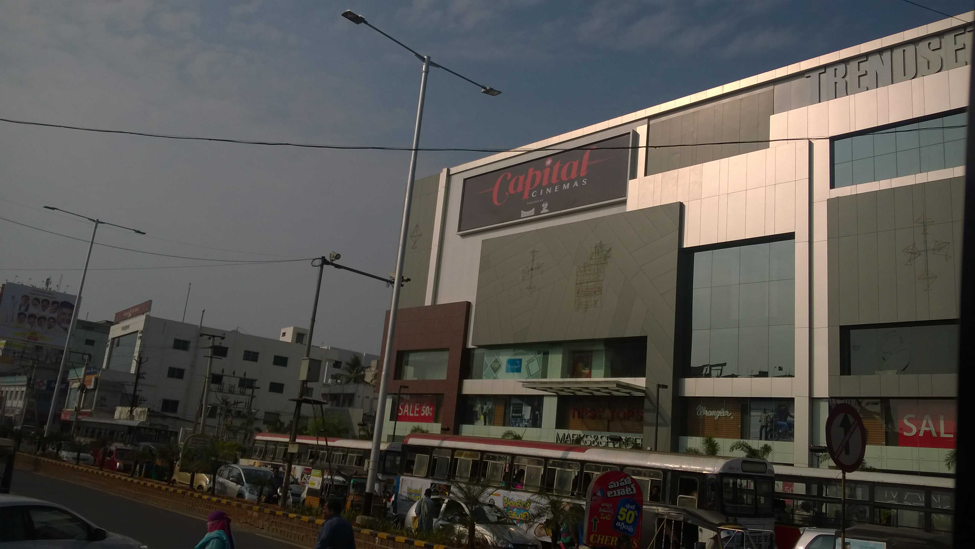 Trendset mall in Benz circle Other information Trendset